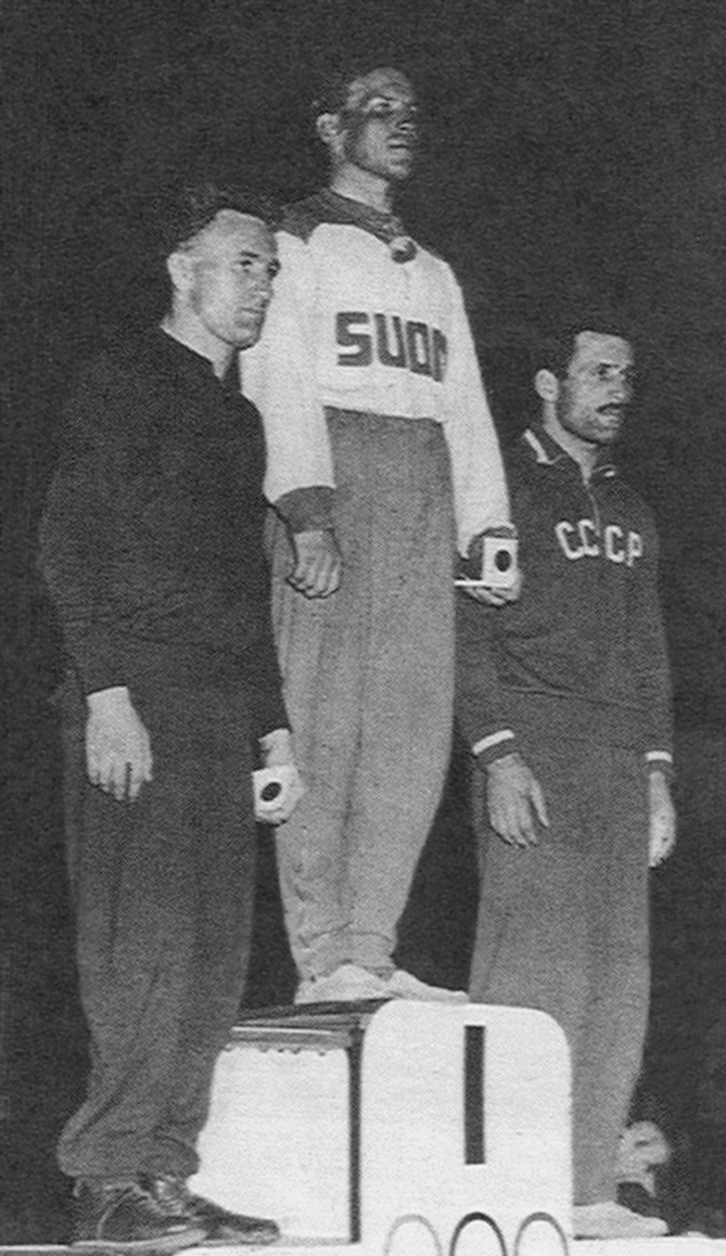 Left-right: Imre Polyák, Rauno Mäkinen, Roman Dzeneladze at the 1956 Olympics